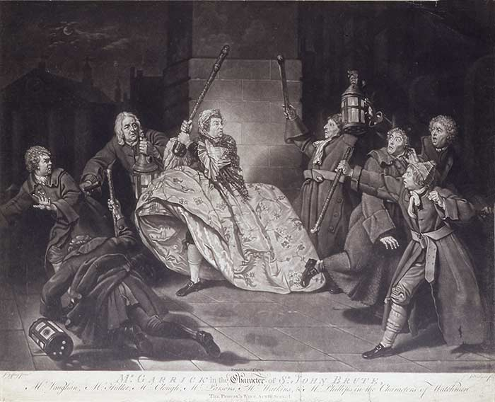 Mid-18th century print of David Garrick in a scene in Vanbrugh's comedy The Provoked Wife.